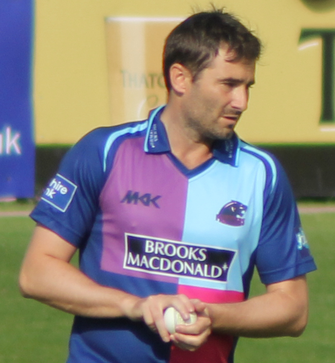 Tim Murtagh bowling for Middlesex during their Yorkshire Bank 40 match against Somerset at the County Ground, Taunton in 2013.